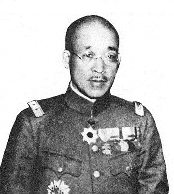 Jiro Tamon Close-up